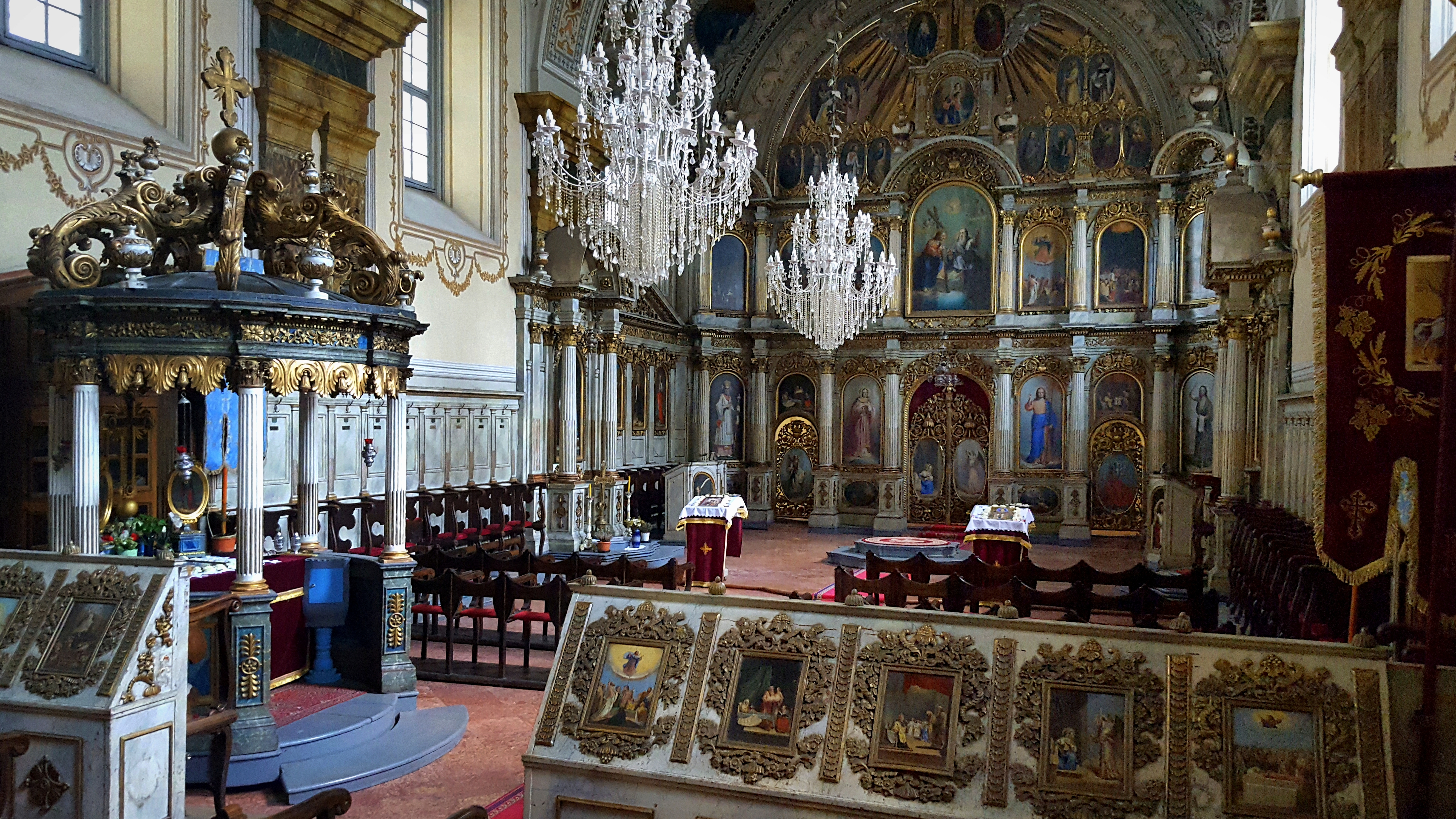 Serbian Orthodox Cathedral in Timișoara Biserica Sârbească „Sf. Nicolae”